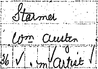 The immigration record of William&Frederick Starmer